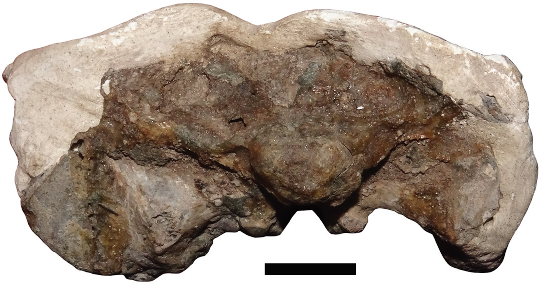 Holotype of Thliptosaurus imperforatus (BP/1/2796) in occipital view. Scale bar equals 1 cm.